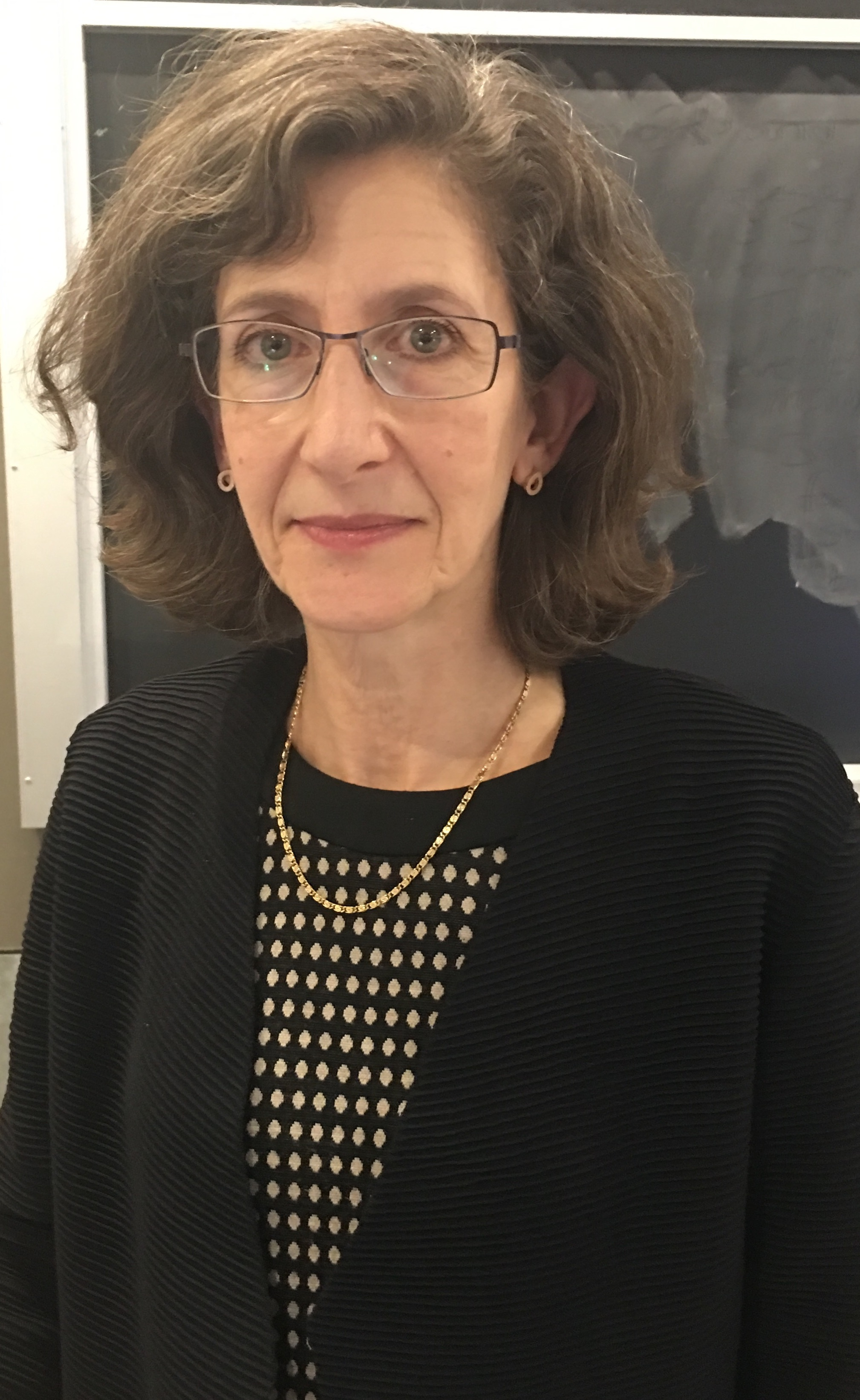 Professor Lucia Zedner, British legal scholar, in October 2017.